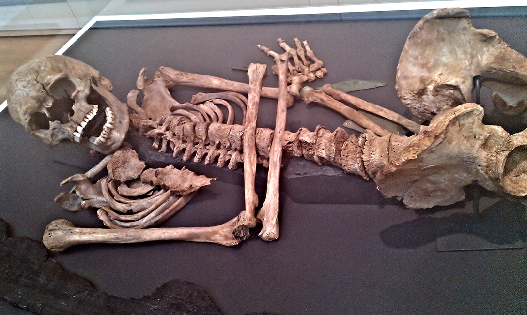 This is a reconstruction of a burial of a man who died between 2330 BC and 2130 BC. The items placed in his grave are typical of the richer graves of the early 'Beaker' period in much of western Europe. Daggers, archers' wristguards and dress fittings were the usual burial goods of powerful people. Grave goods may be the possessions and provisions needed by the dead for their journeys to the afterlife. They may also define the identity of individuals within society. This man may have used some of the items when alive; others were perhaps gifts from mourners. The beakers themselves could have held some kind of drink, possibly alcoholic, offered or drunk as part of funeral rites. It is this distinctive shape of pot with gives the 'Beaker' culture its name. Copper Age, 2350-2100 BC Barnack, Cambridgeshire, England